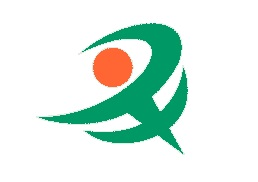 Flag of Taki Mie